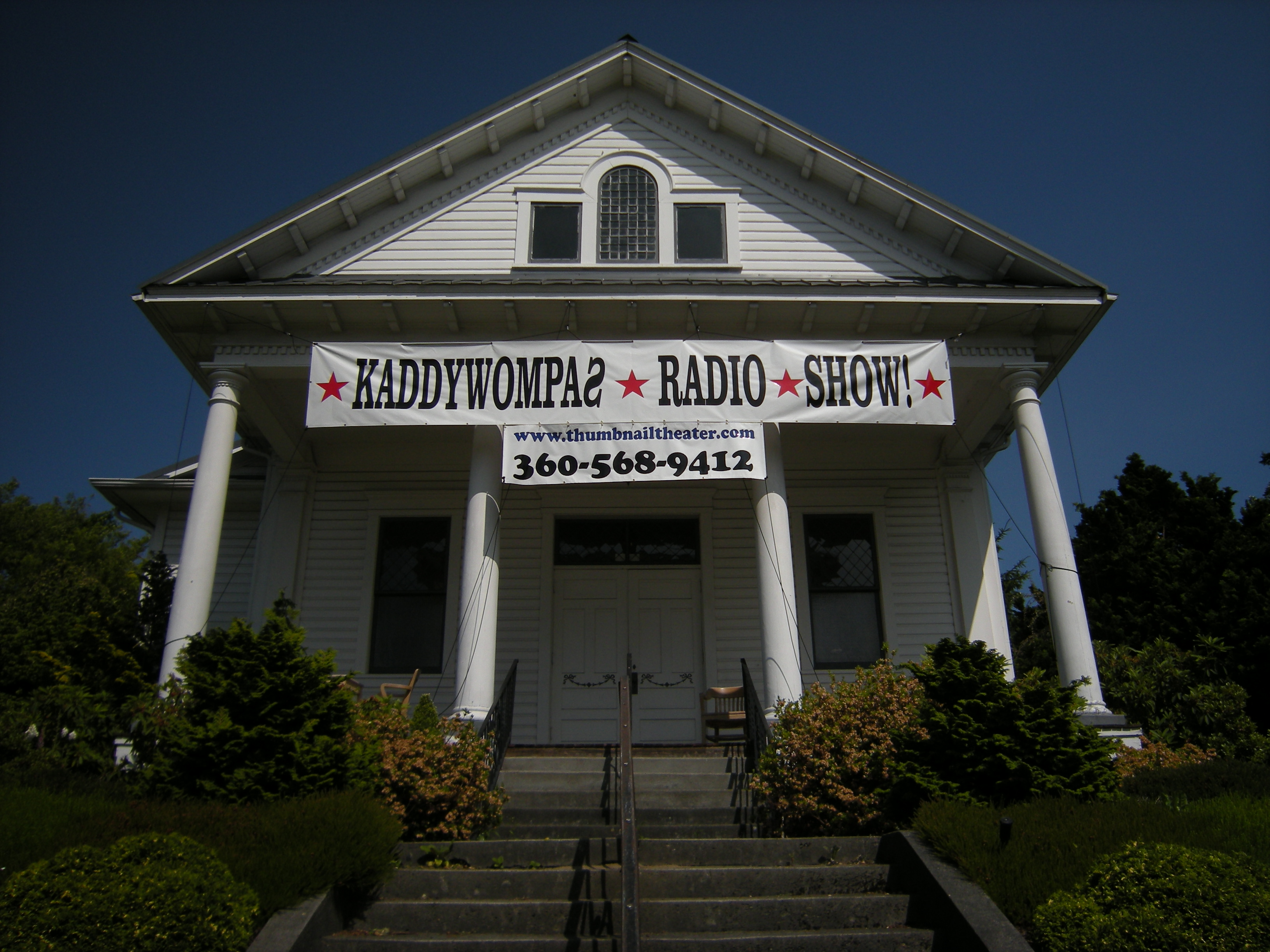 Tim Noah Thumbnail Theater, 329 Avenue D, Snohomish, Washington, USA. Originally built (1903) as the First Church of Chirst, Scientist.